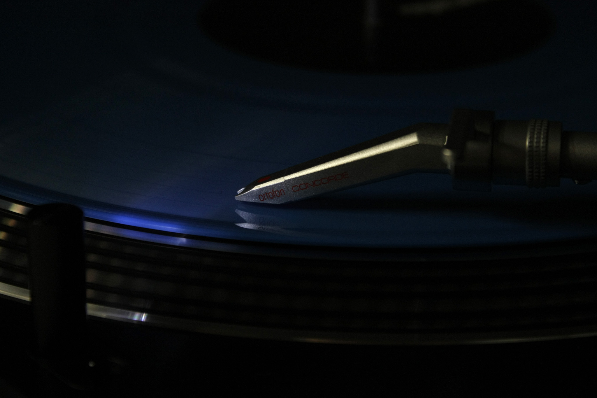 Pioneer PLX 1000 turntable with Ortofon Concorde DJ cartridge